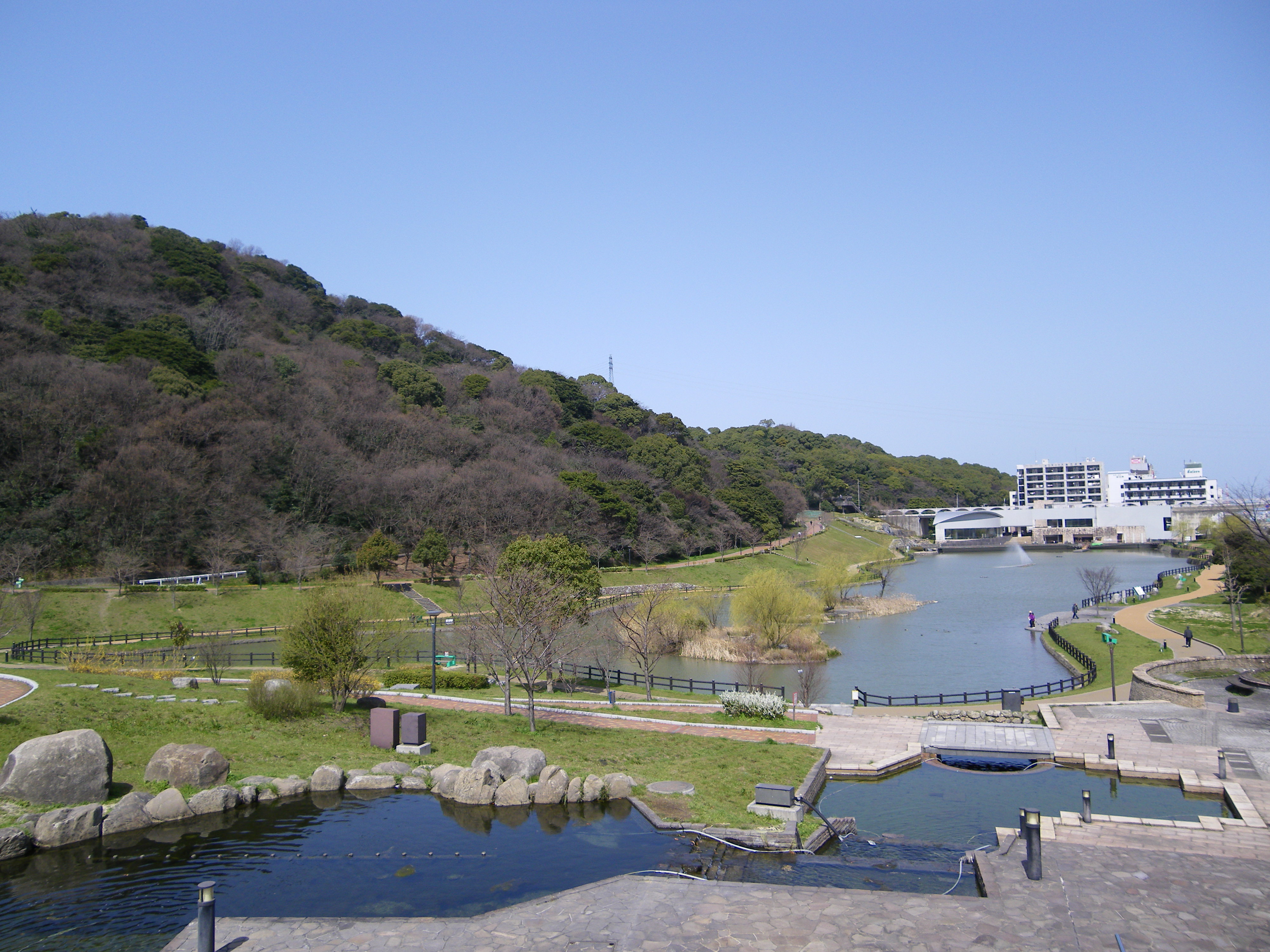 Fukuoka prefectural Chuo Park (Urban park in Kitakyushu).